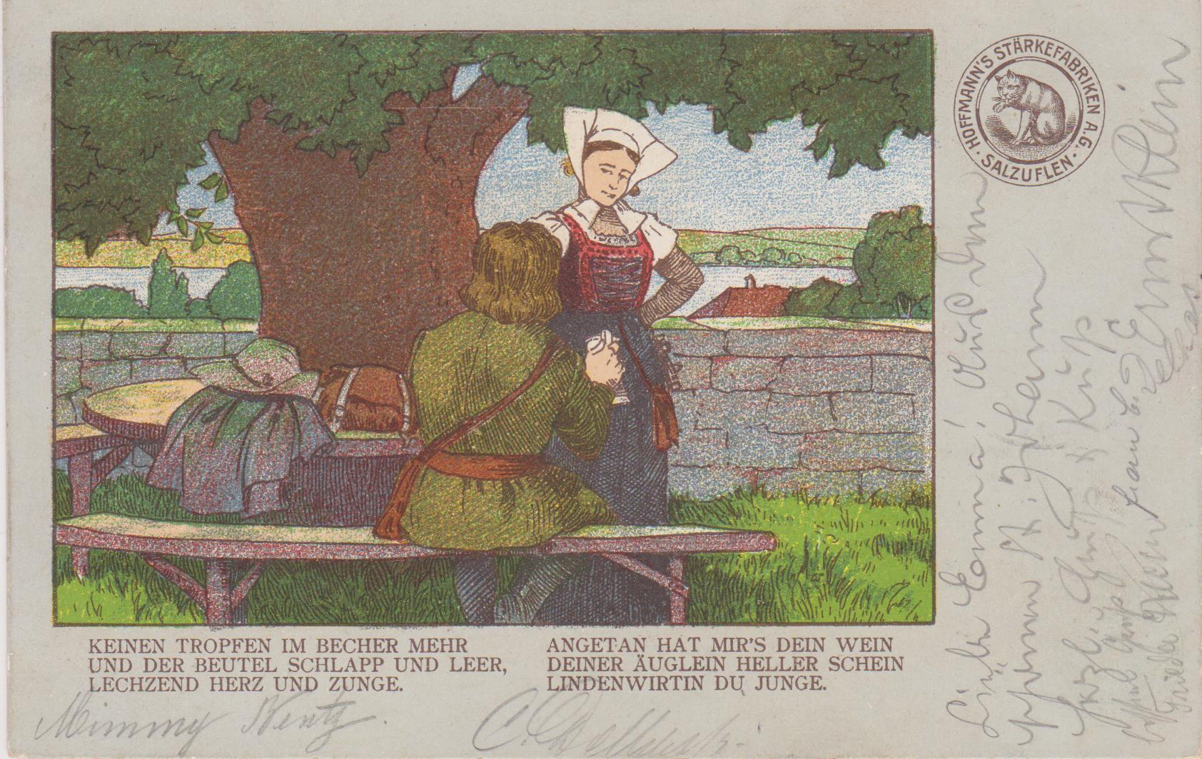 Germany - North Rhine-Westphalia - district Lippe - Bad Salzuflen: Hoffmann´s Stärkefabriken; postcard